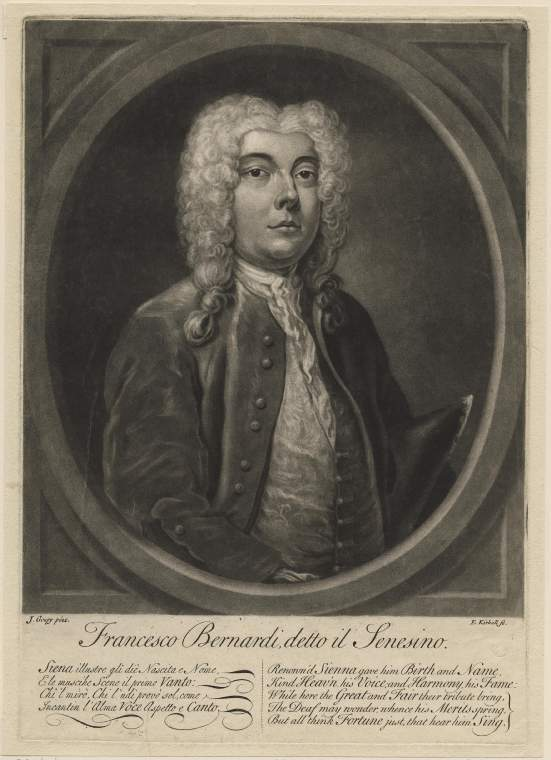 Portrait of the contralto castrato Francesco Bernardi, better known under his stage name Senesino at the same time a parody of the castrati and their singing - and the wealth they earned with it. The lines beneath the portrait - in their English translation - read:: Renown'd Siena gave him birth and name Kind Heaven his Voice and Harmony his Fame While here the Great and Fair their Tribute bring The Deaf may wonder where his Merits spring But all think Fortune just that have him sing Engraving by Elisha Kirkall (ca. 1682-1742) after an artwork by Joseph Goupy (1689-1769) preserved at Fitzwilliam Museum Cambridge, Object-Number: P.10512-R